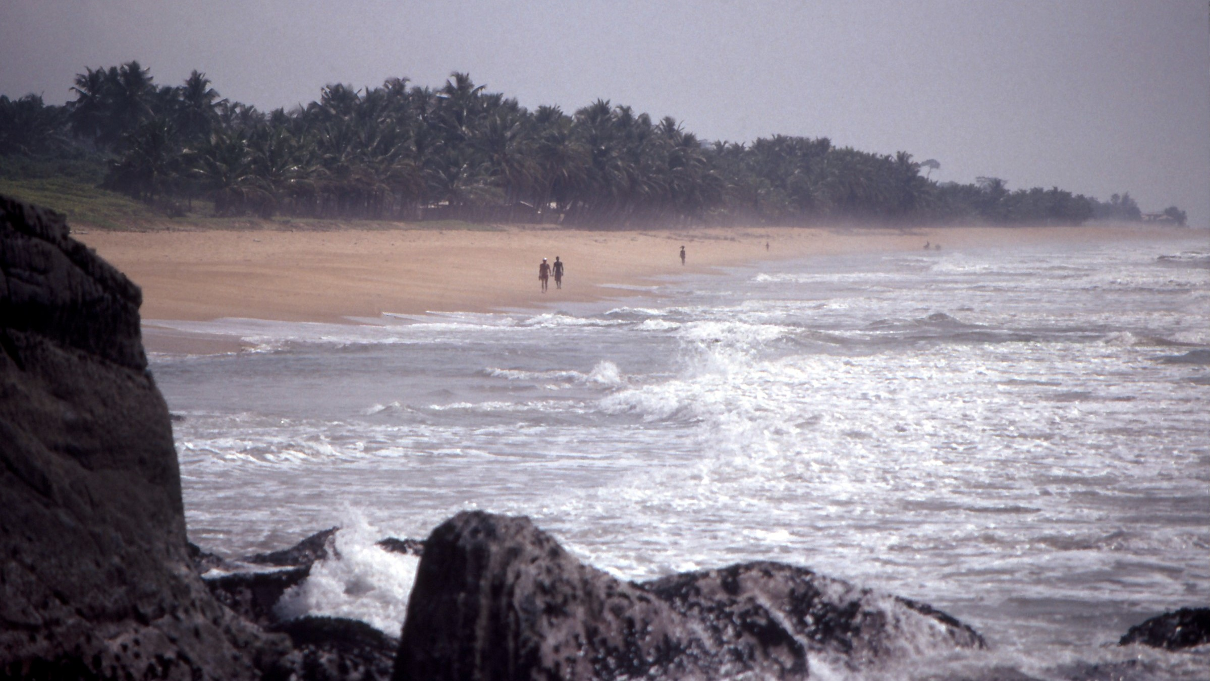 Atlantic beach west of San Pedro, Ivory Coast, January 1990.